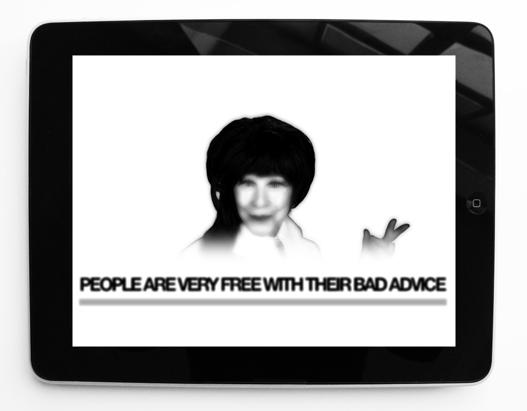 British Actress Fenella Fielding reflects on the risks of taking other people's advice in metaFenella by public artist Martin Firrell